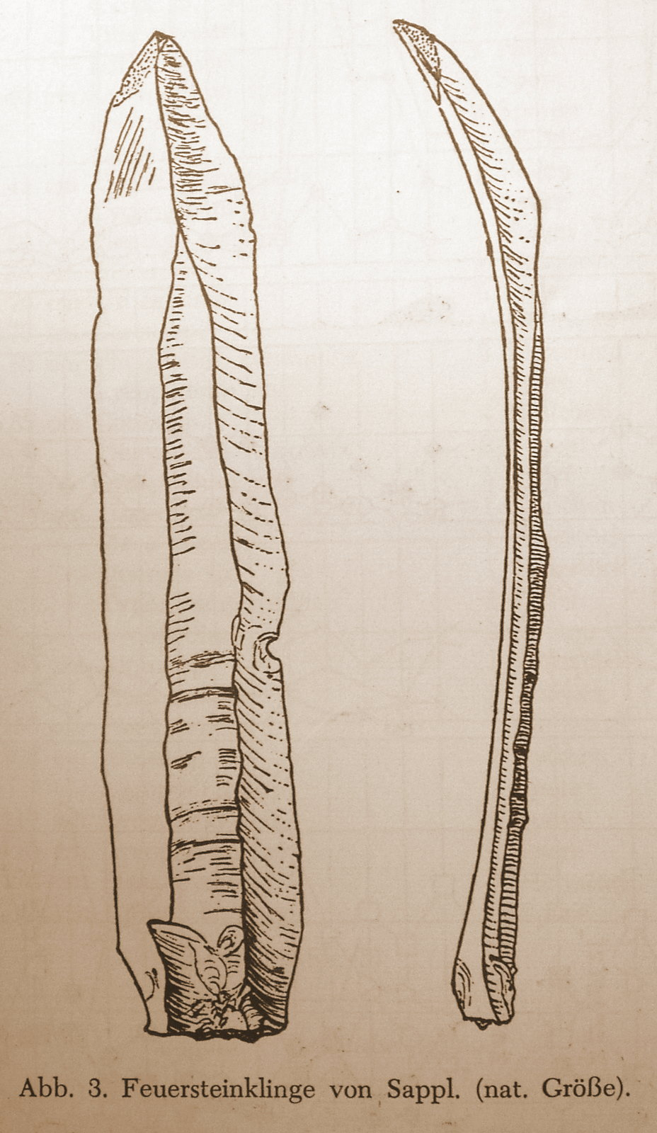 Flintstone blade from Sappl near Lake Millstatt (Millstätter See), district Spittal an der Drau in Carinthia / Austria / European Union.